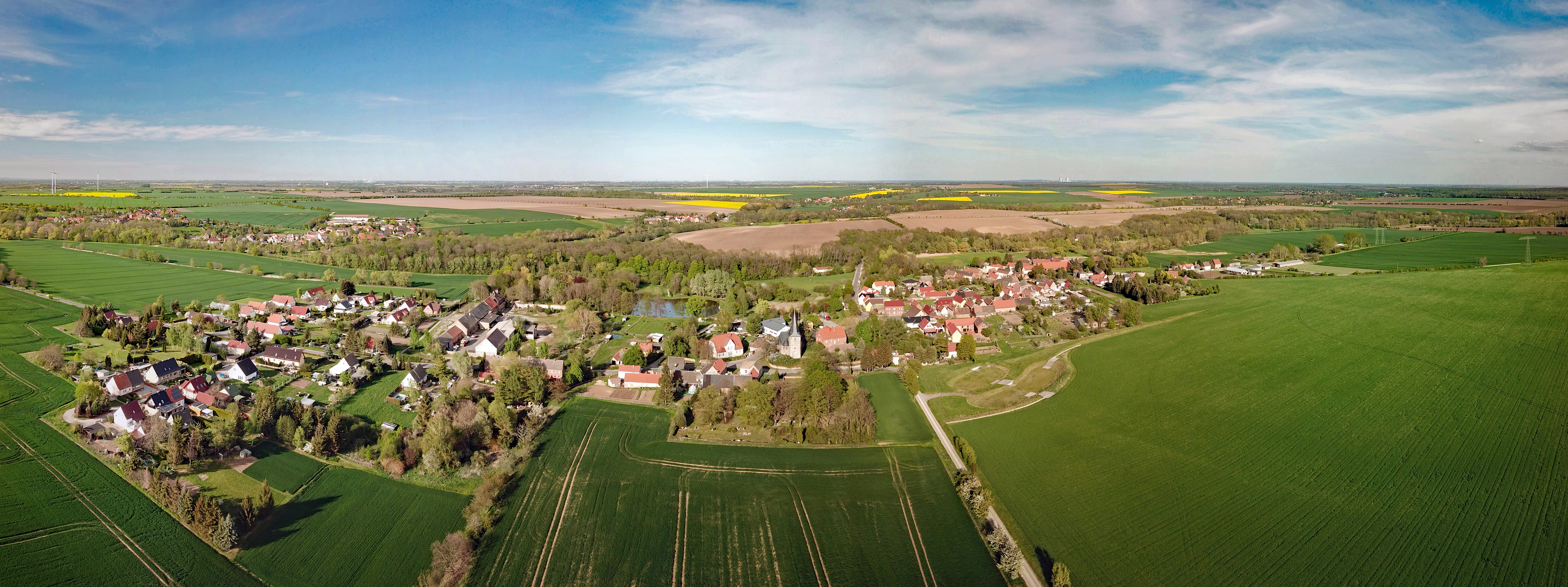 Poserna, Lützen, Saxony-Anhalt, Germany